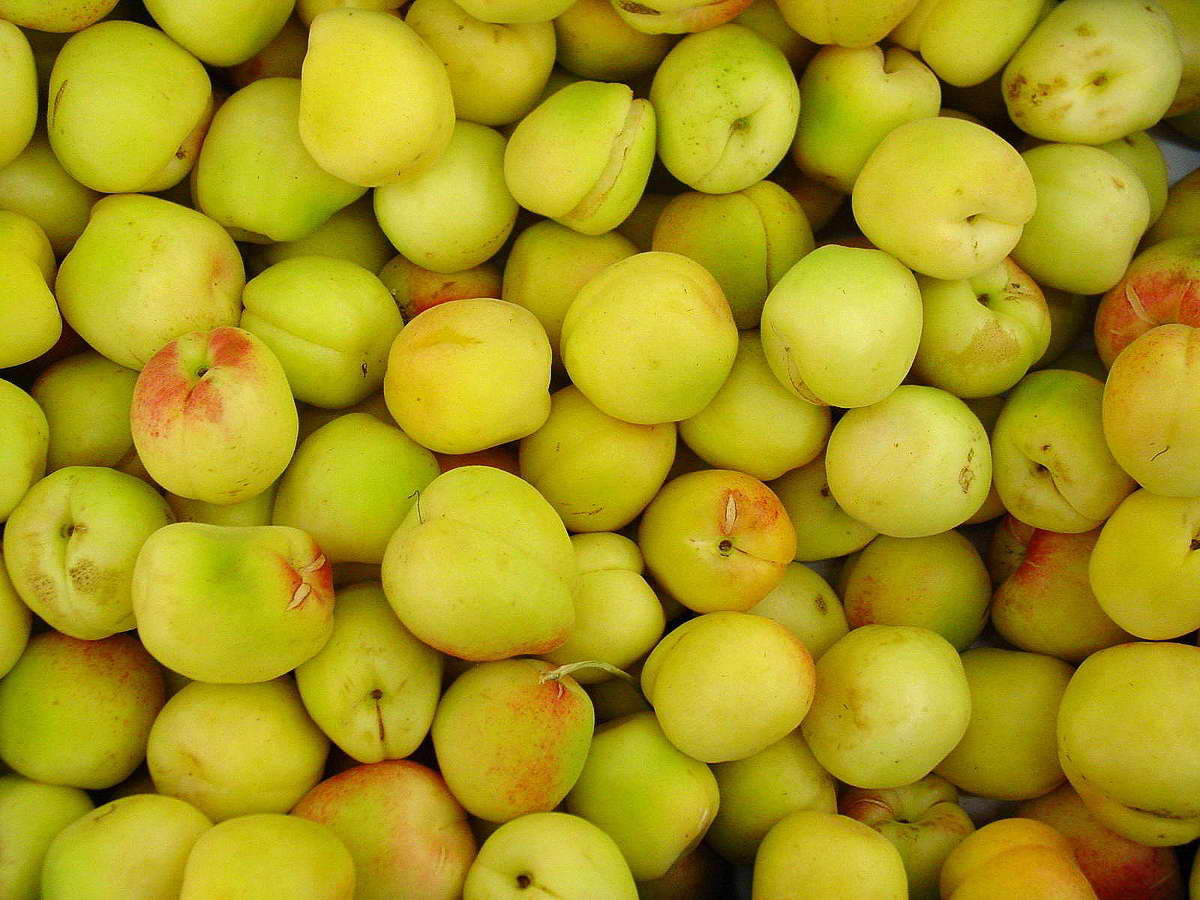 Apricot